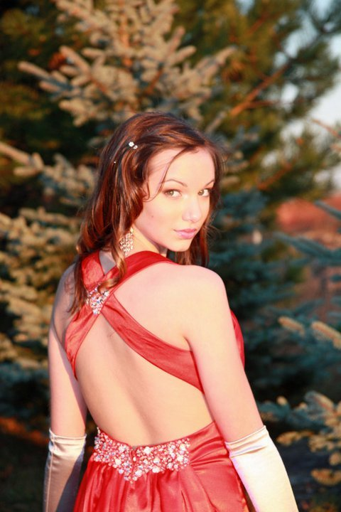 Singer, Songwriter, Recording Artist, Mary-Lynn Neil